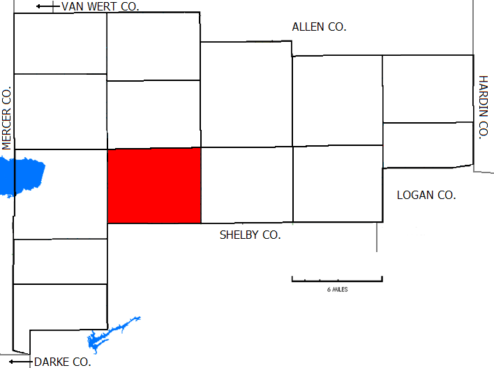 Taken from the Auglaize County map provided by Prinzwilhelm, who claimed that the original map was "self-created based on U.S. Government Census Maps and Date," and modified by myself to show the highlighted township.